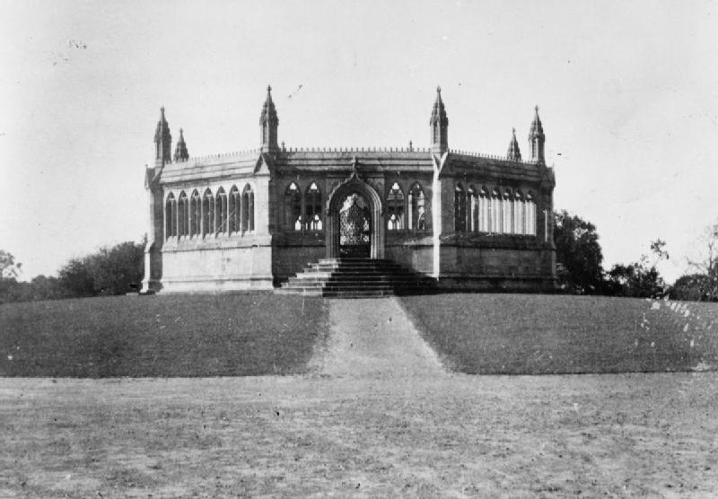 The Indian Mutiny 1857-1859 Aftermath of the Siege of Cawnpore, showing the restored well at the Bibi-Ghar (the House of the Ladies). The massacre of more than 200 British women and children which took place there on 15th July 1857 was one of the worst atrocities of the Mutiny.